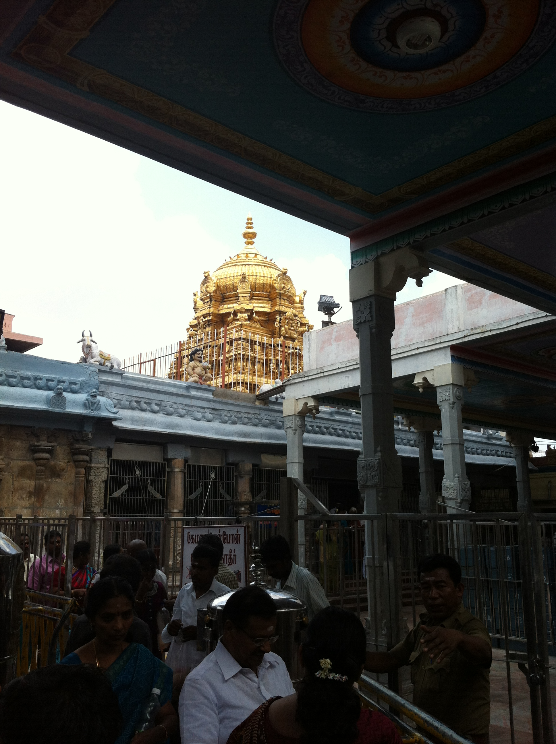 Pazhani Temple Gold Gopuram